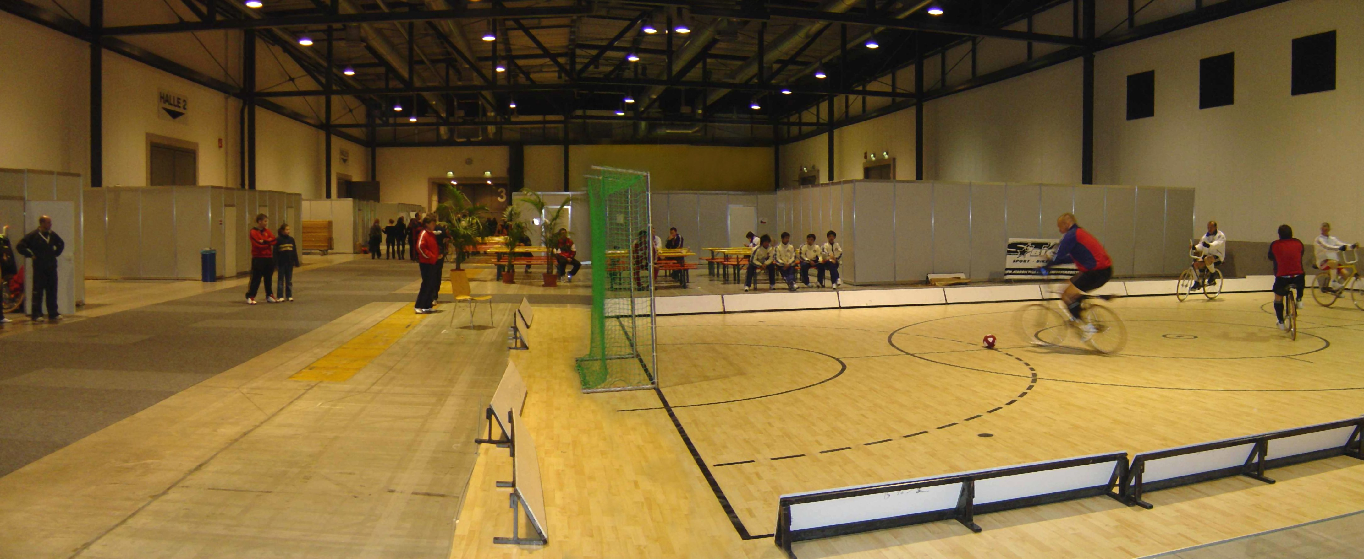 Training area during 2005's UCI Indoor Cycling World Championships in the Messe Freiburg